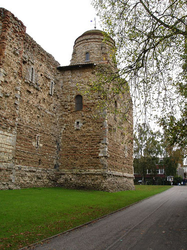 Downloaded from Flickr public domain section. Author is User presidentservelan, real name Simon Carrington (